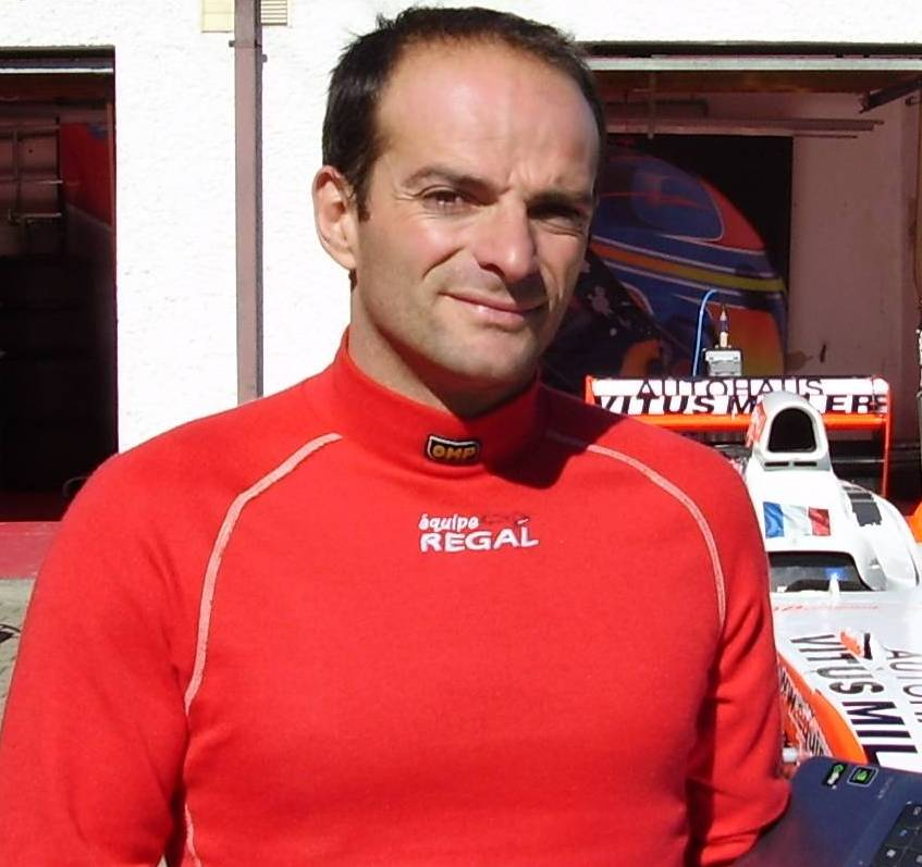 Lionel Régal in front of his racecar